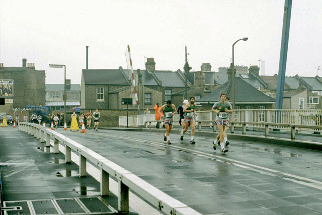 1982 London Marathon - Blackwall entrance, West India Docks